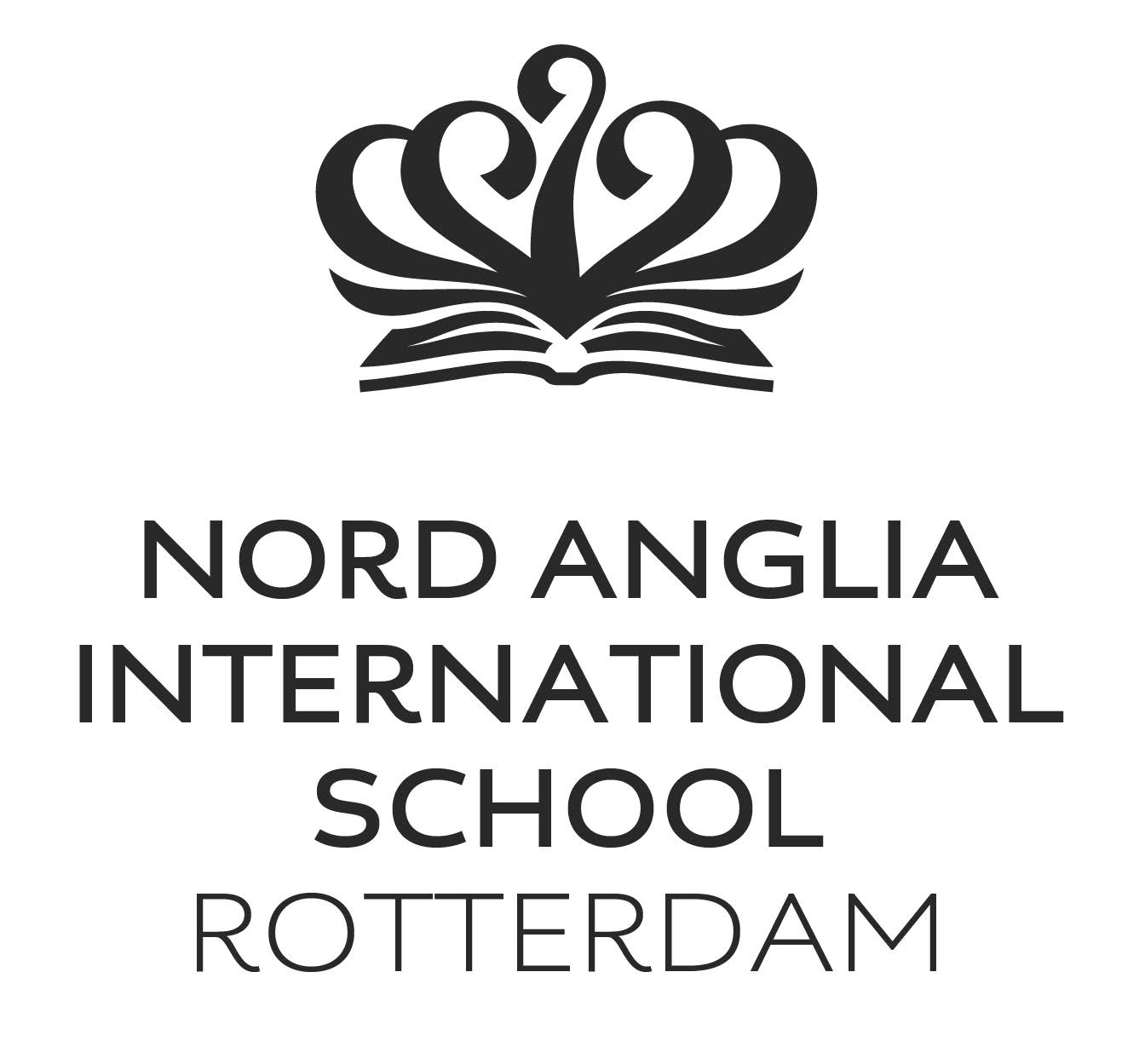 School Logo